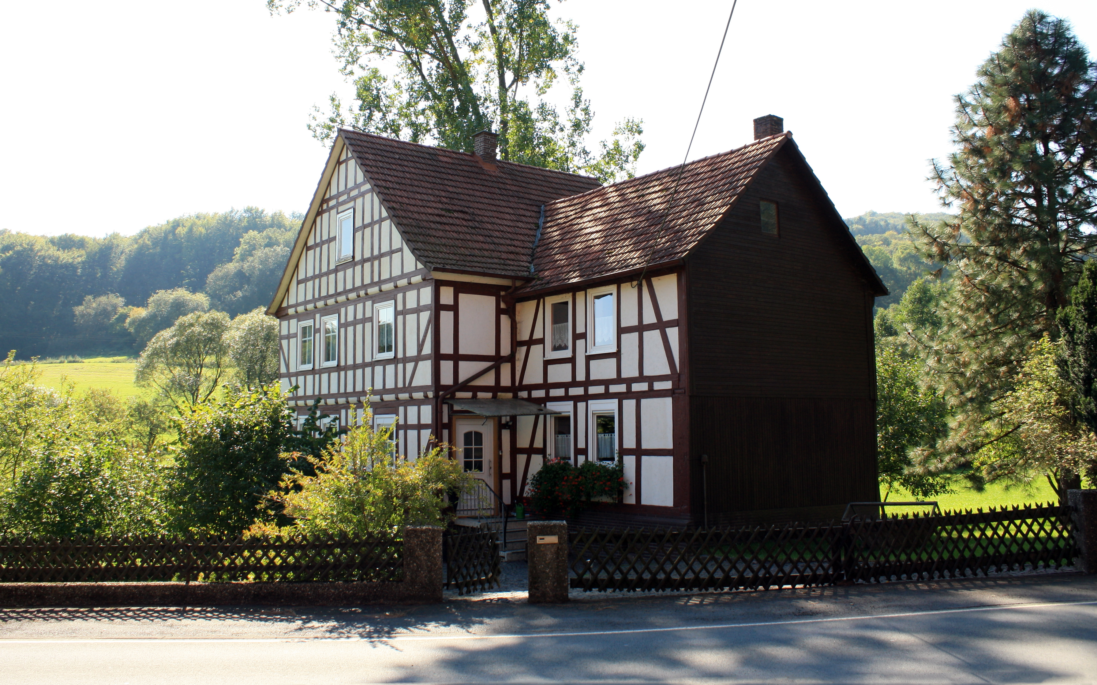 The former mill near Marburg-Dilschhausen